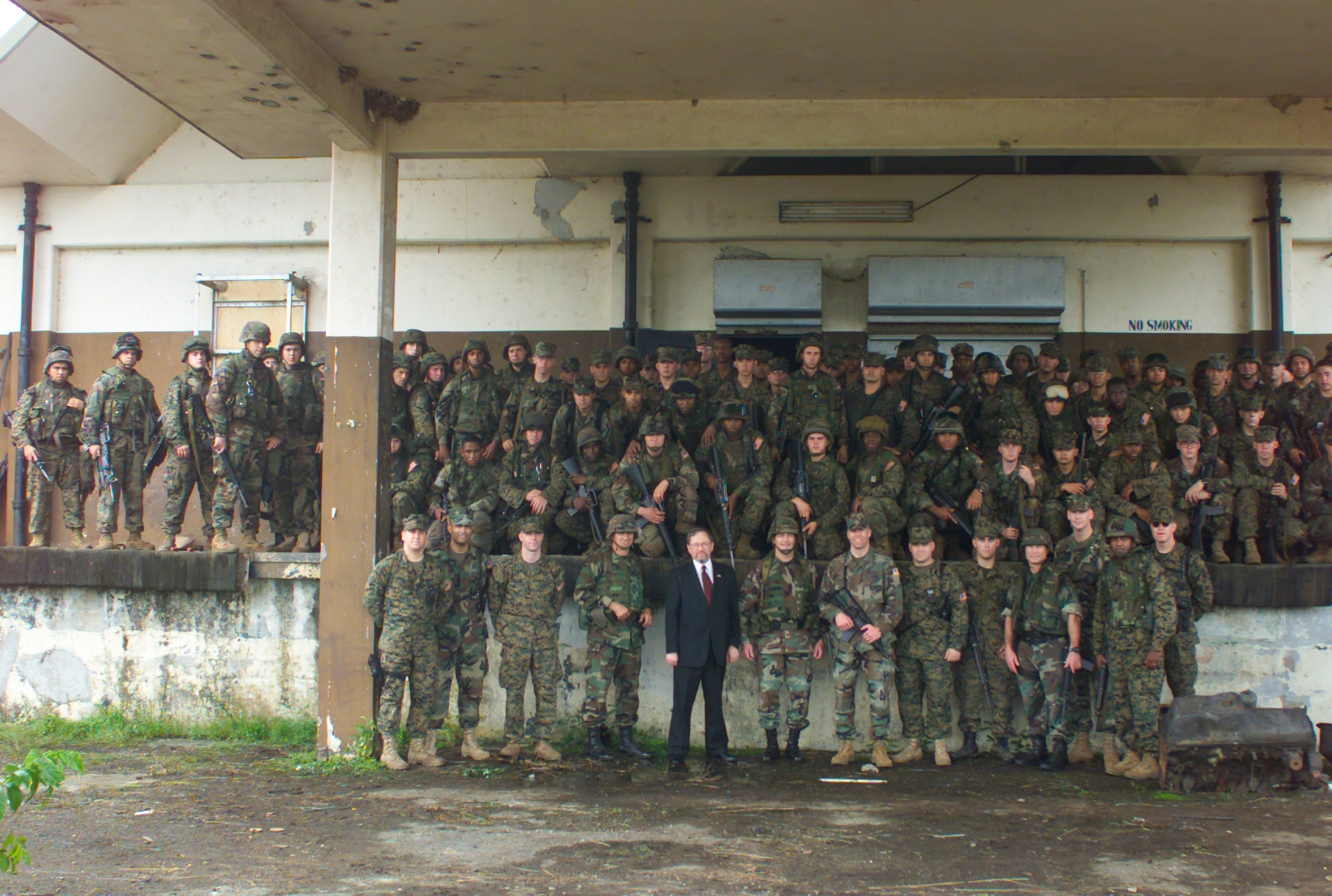 The Marines with John W. Blaney.